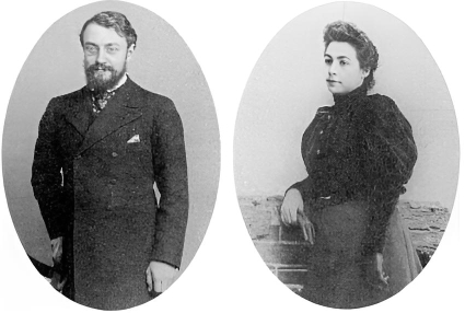 Henri Matisse and Amélie Matisse 1898 in the time of their marriage